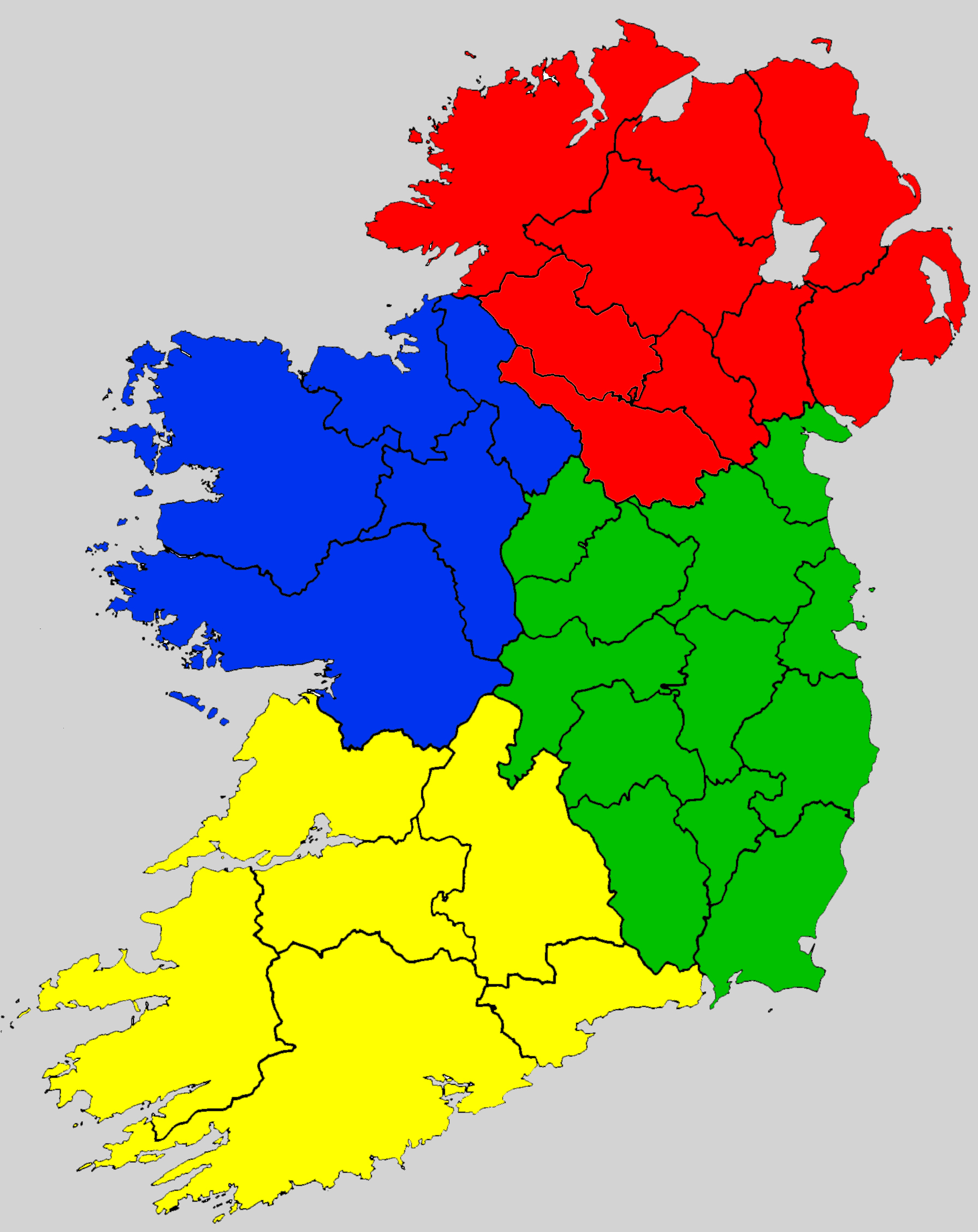 A map highlighting the four provinces of Ireland.